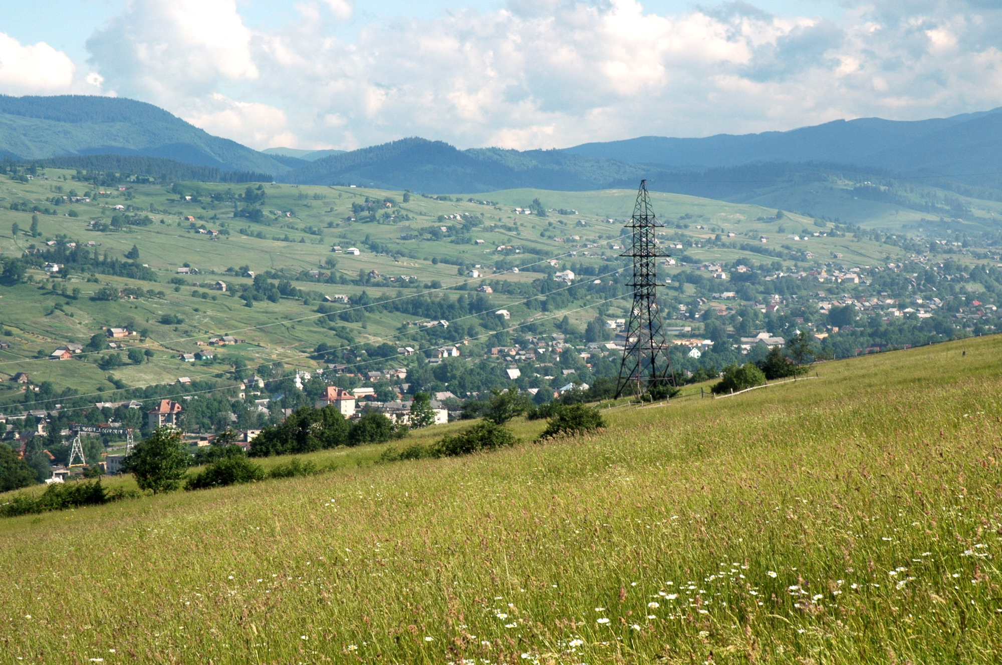 Panoramic view of Yasinia